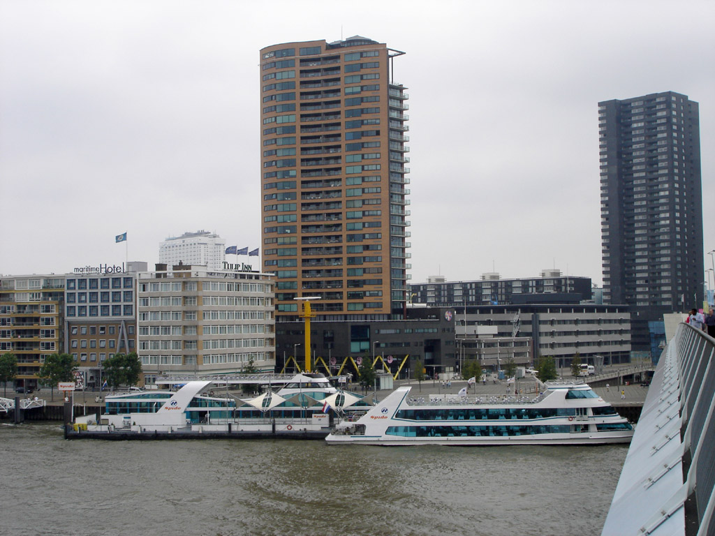 The Spido, a tourist ferry through the Harbor of Rotterdam near the Erasmus bridge.